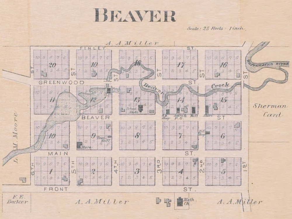 Map of the town of Beaver on page 36 of the "Plat Book of Winona County Minnesota: Drawn from actual Surveys and the County Records by C.M. Foote & J.W. Henion, surveyors and draughtsmen"